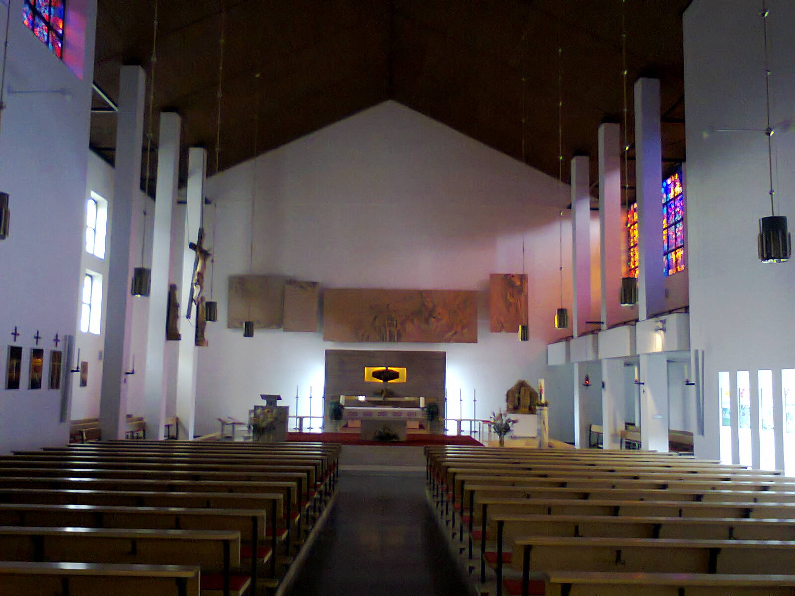 Pius X church Schüttdorf